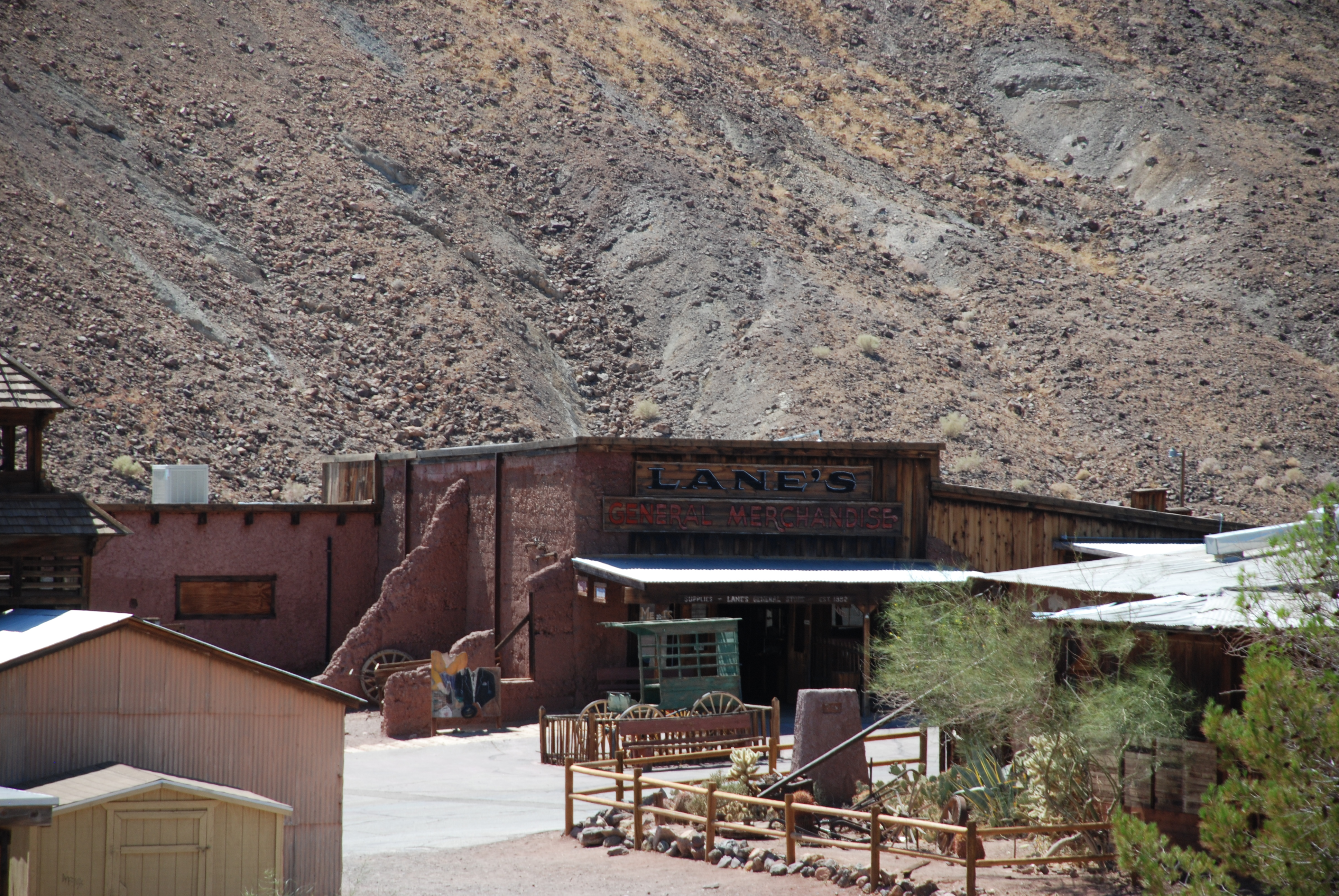 Lane's General Merchandise, Calico Ghost Town, California, USA